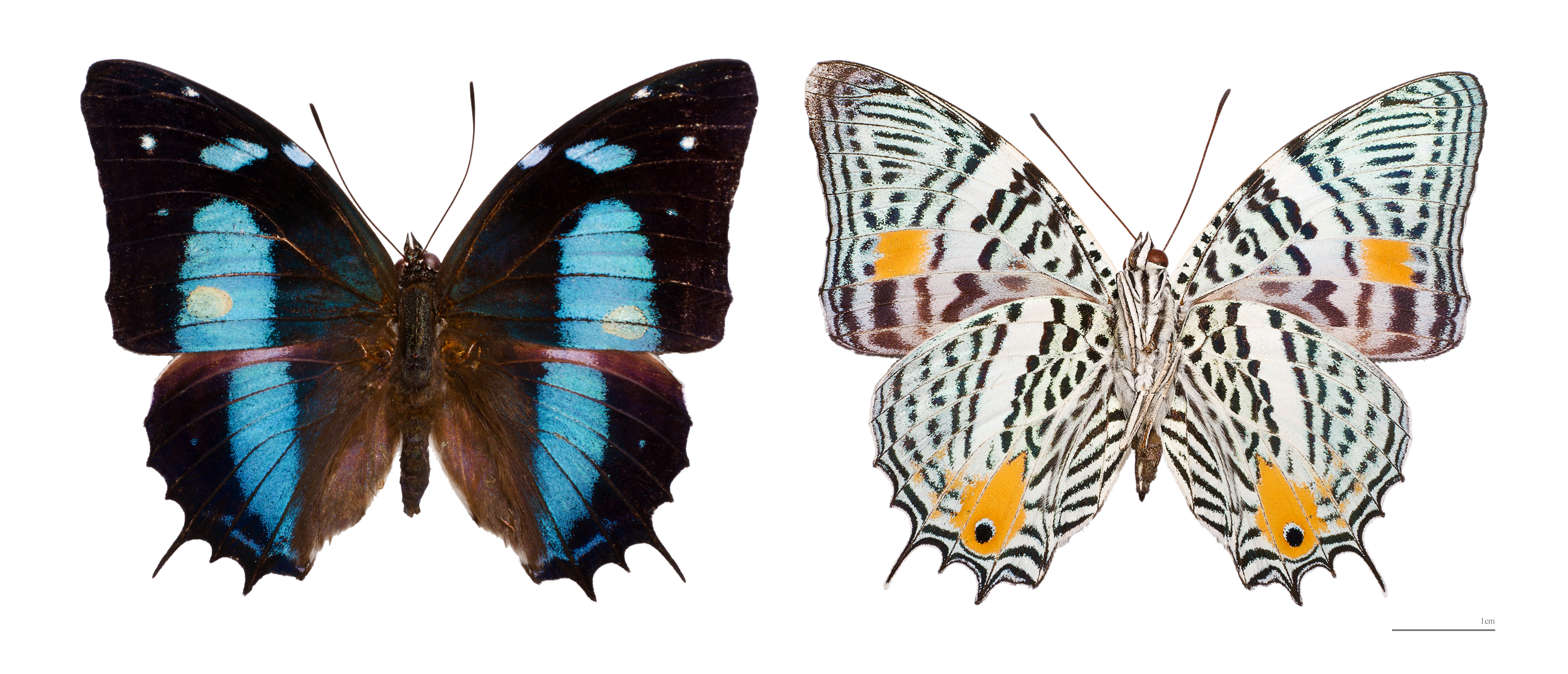 ♂ - Two views of same specimen Locality : Cacao, Crique Baguot, French Guiana.